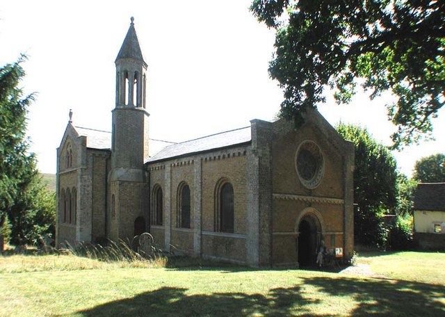 Holy Trinity, Wareside, Herts